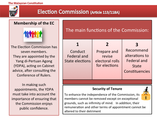 A diagram summarising the method of appointment, functions and features of the Malaysian Election Commission